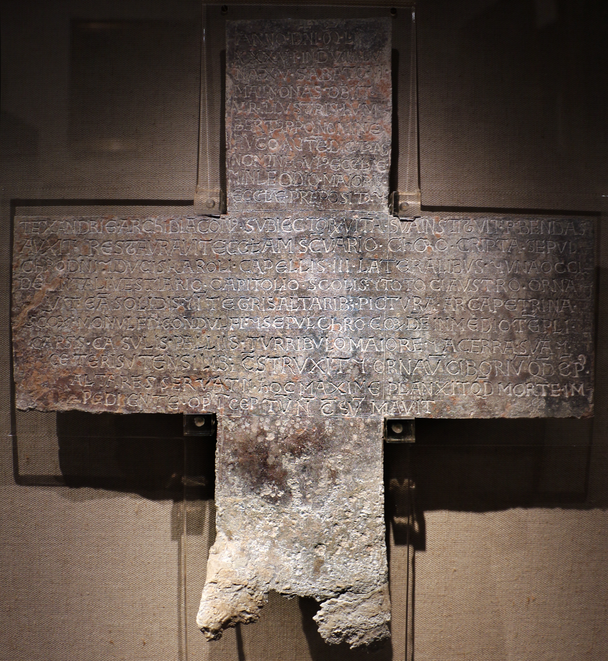 Grave cross found inside the tomb of Humbert (also: Hugo), provost of Saint Servatius in Maastricht, provost of Saint Lambert in Liège and archdeacon of Taxandria. He rebuilt parts of the church of Saint Servatius in Maastricht and was burried there in 1086. Collections of the Treasury of the Basilica of Saint Servatius, Maastricht, the Netherlands.